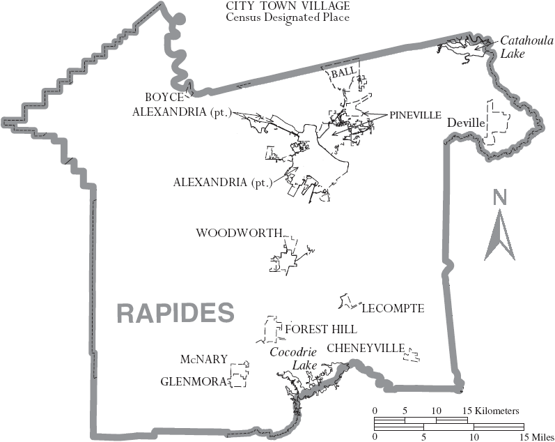 Map of Rapides Parish, Louisiana, United States with municipal boundaries